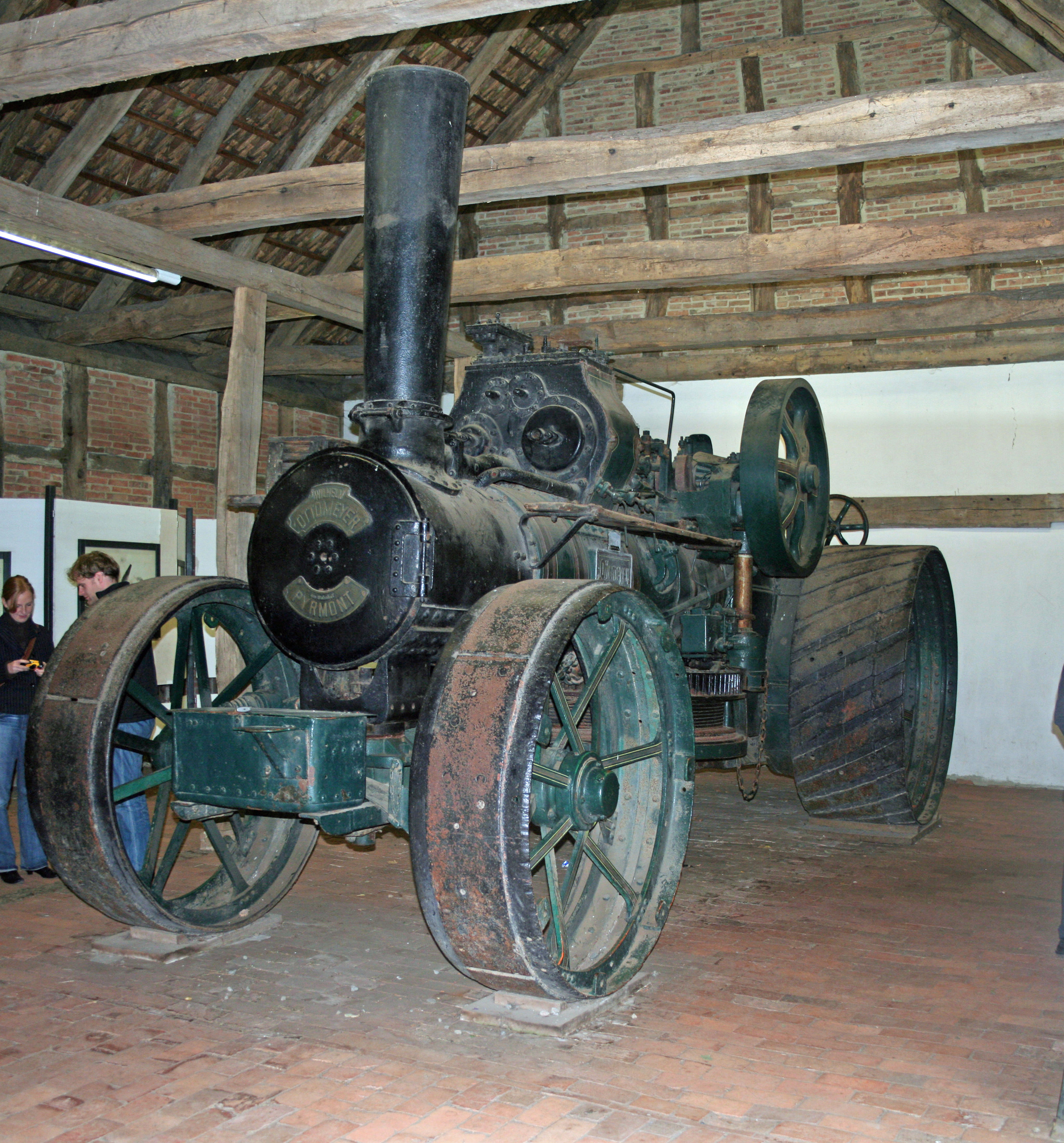 Steam ploughing engine, a type of traction engine